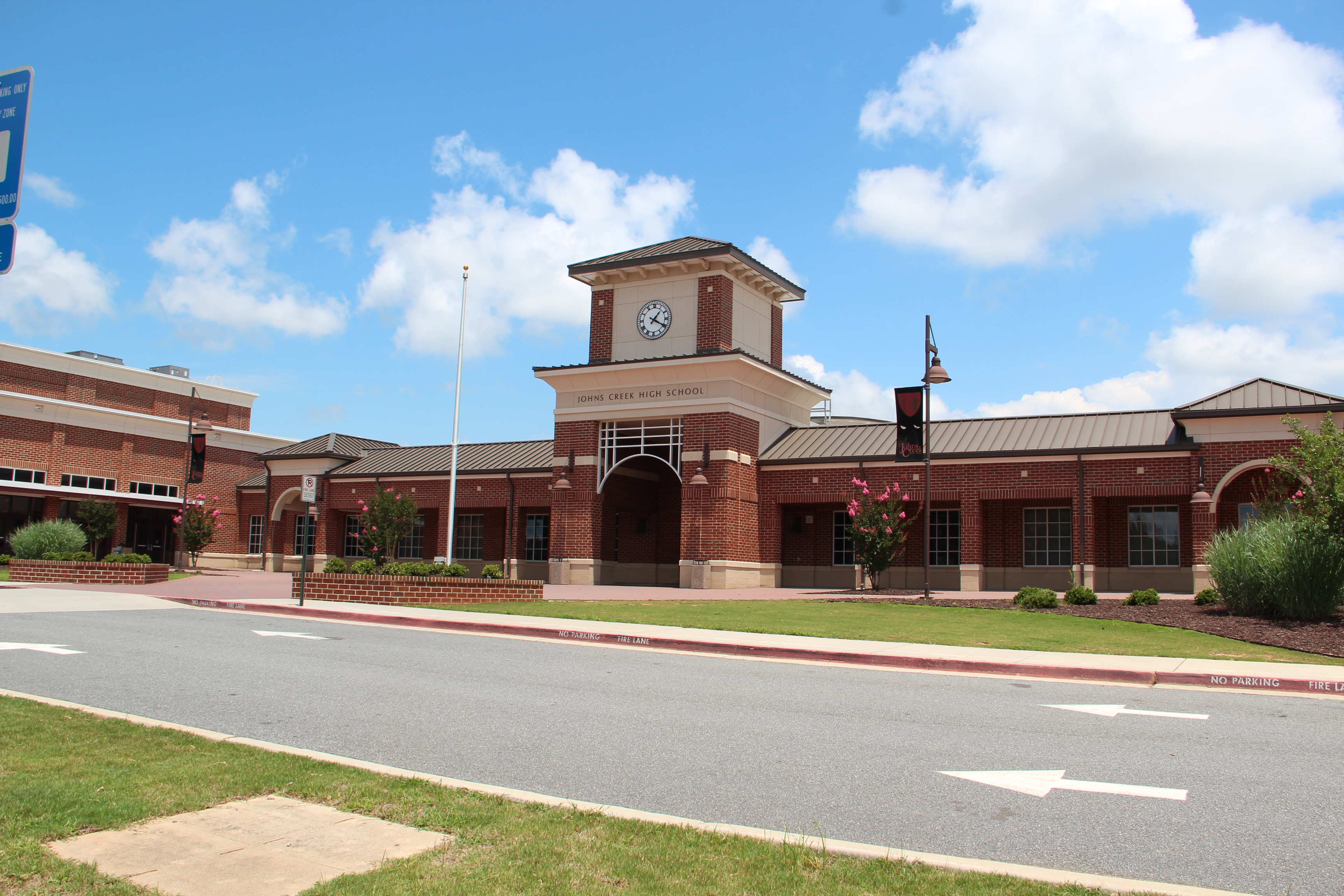 Johns Creek High School front entrance